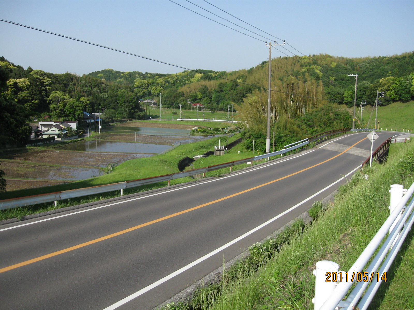 Chiba prefectural road route 298